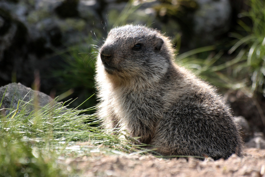 Young M.marmota latirostris on Volovec Mt., Tatra